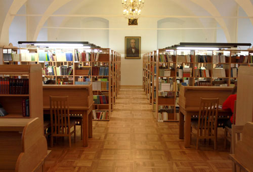 Vilnius university library Philolohy reading room